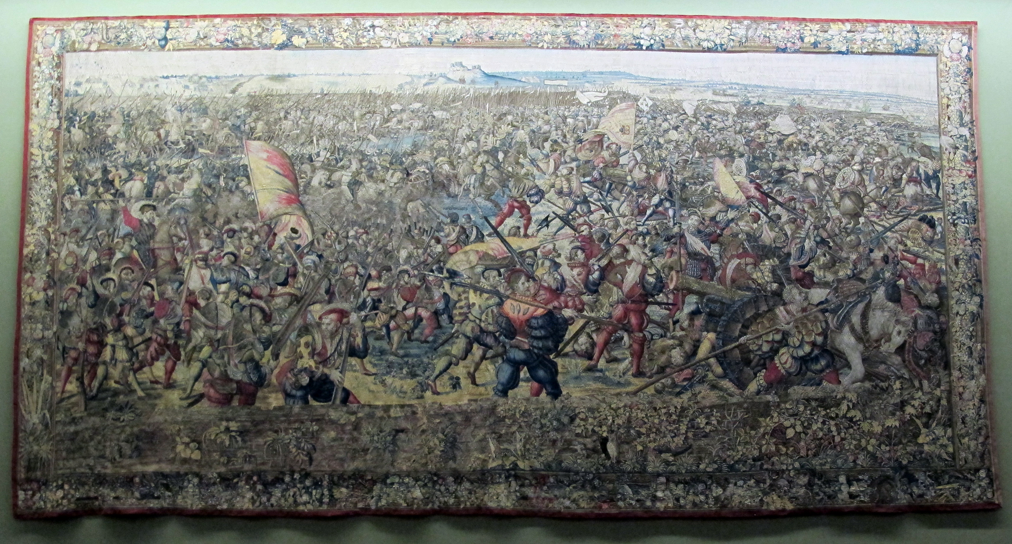 manufactured in Bruxelles